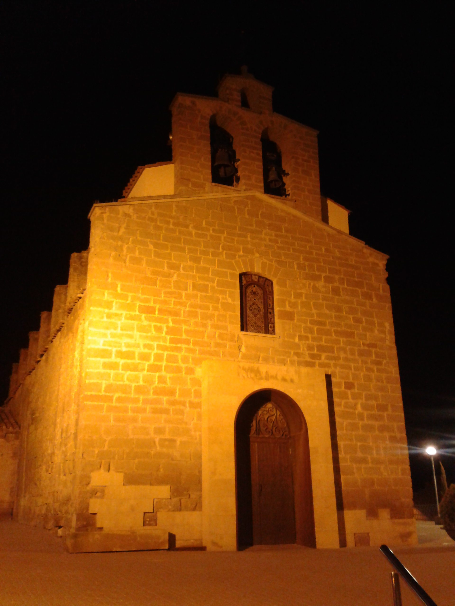 Parish church of Saint Sebastian (Vilanova de Segrià, Lleida)